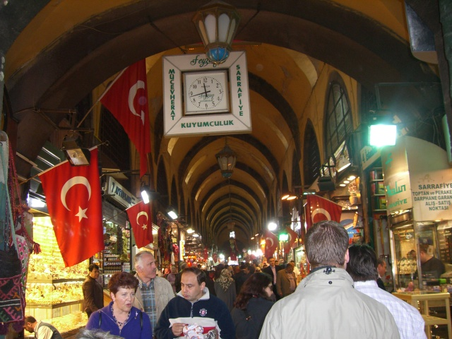 Grand Bazaar, Istanbul, Turkey